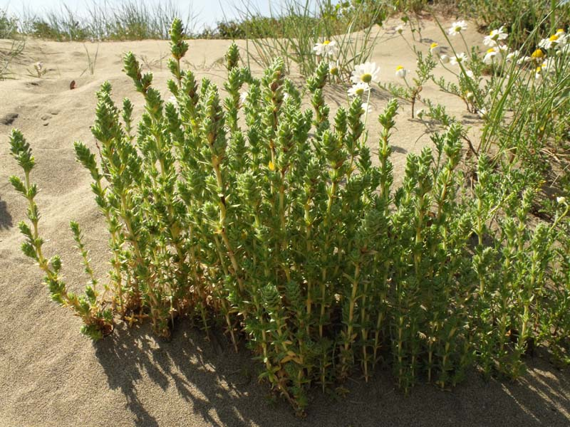 Crucianella maritima. Photo taken on Castel Fusano coastal dune system (Rome Province. Latium, central Italy). Photo by Massimilaino Marcelli.